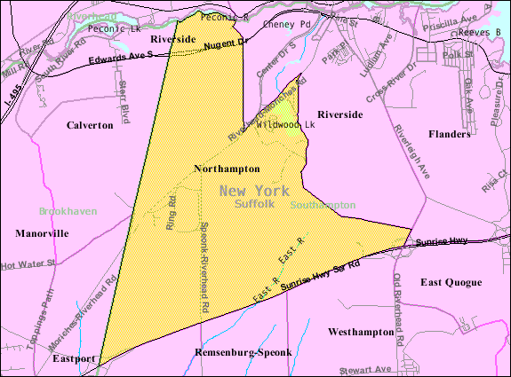 U.S. Census 2000 reference map for Northampton